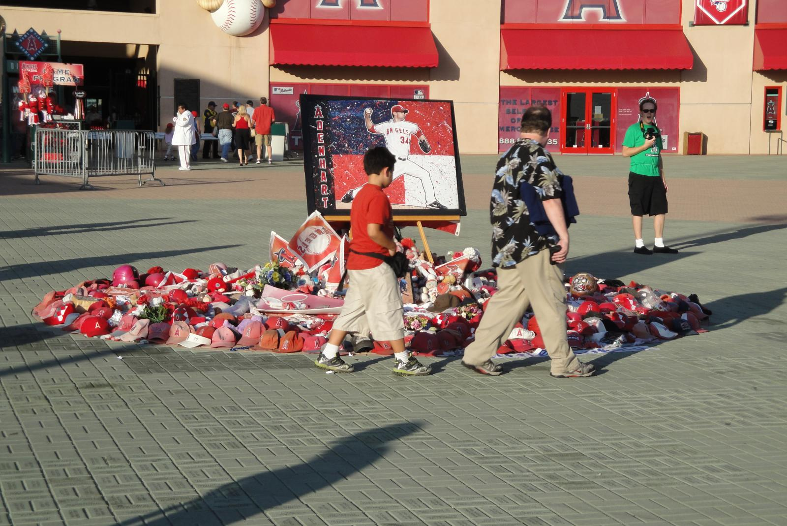 Many fans stopped at Angel Stadium to leave flowers and remember pitcher Nick Adenhart